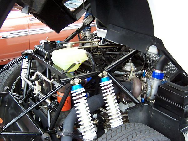 Ford RS200 engine bay. Photo by Morven at the weekly Donut Derelicts car show in Huntington Beach, California on Saturday, August 28, 2004.